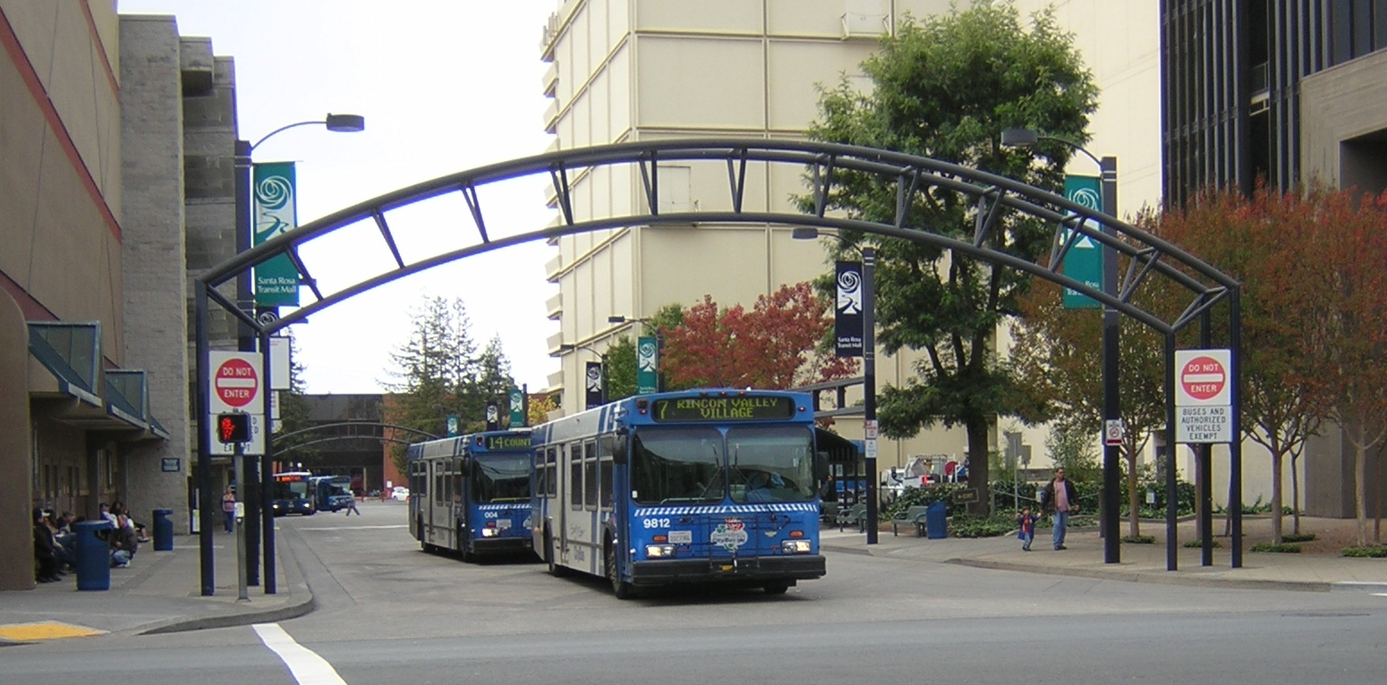 Santa Rosa CityBus buses leaving Santa Rosa Transit Mall.